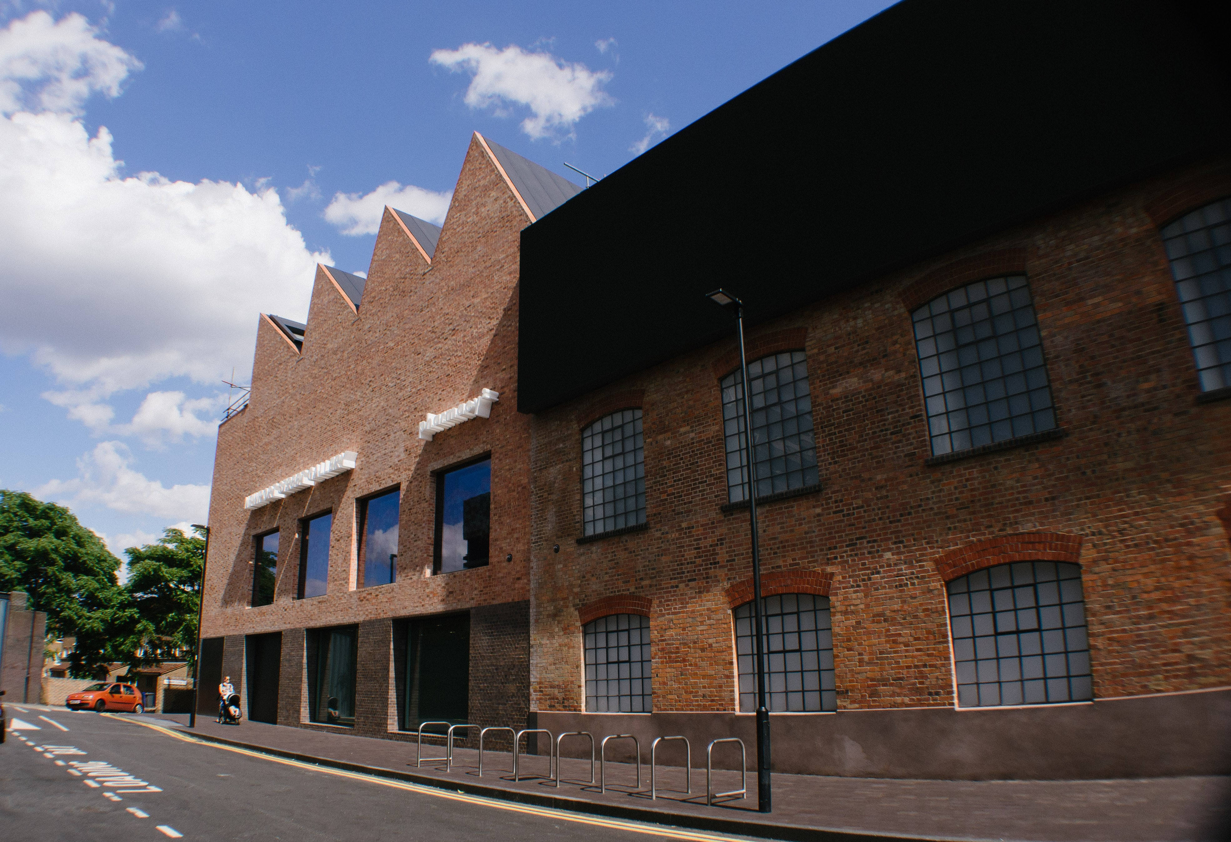 Newport Street Gallery, Newport Street, London SE11 6AJ. Damien Hirst’s Newport Street Gallery was designed by Caruso St John Architects and won the 2016 RIBA Stirling Prize.